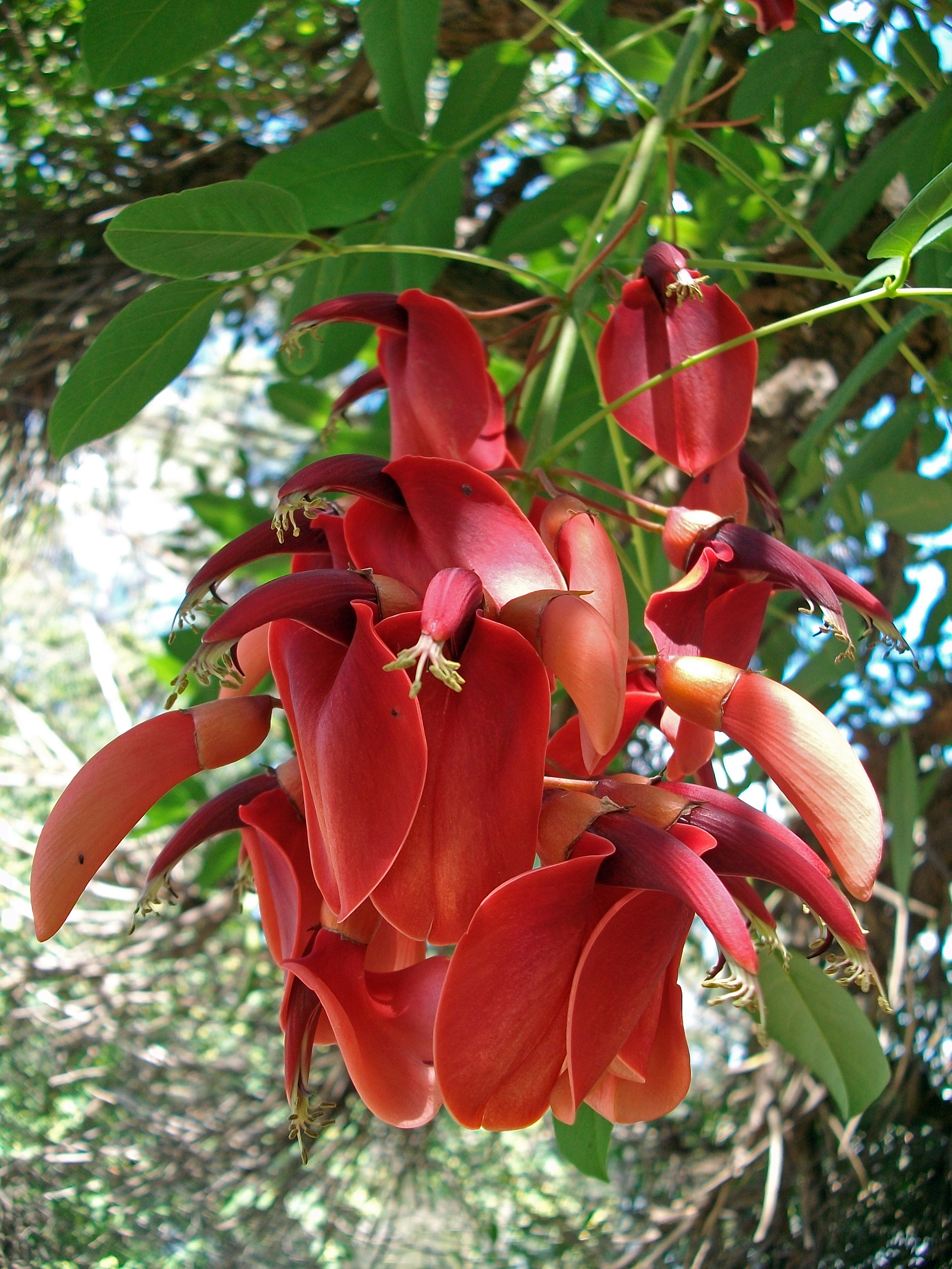 Cockspur Coral Tree (Erythrina crista-galli) leaves and flowers. Photographed on the banks of the Wollundry Lagoon in Wagga Wagga, New South Wales.